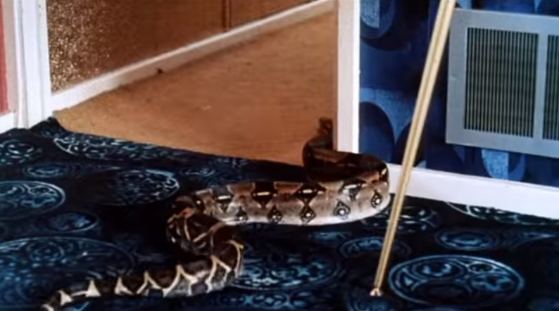 Alex's snake leaving his room